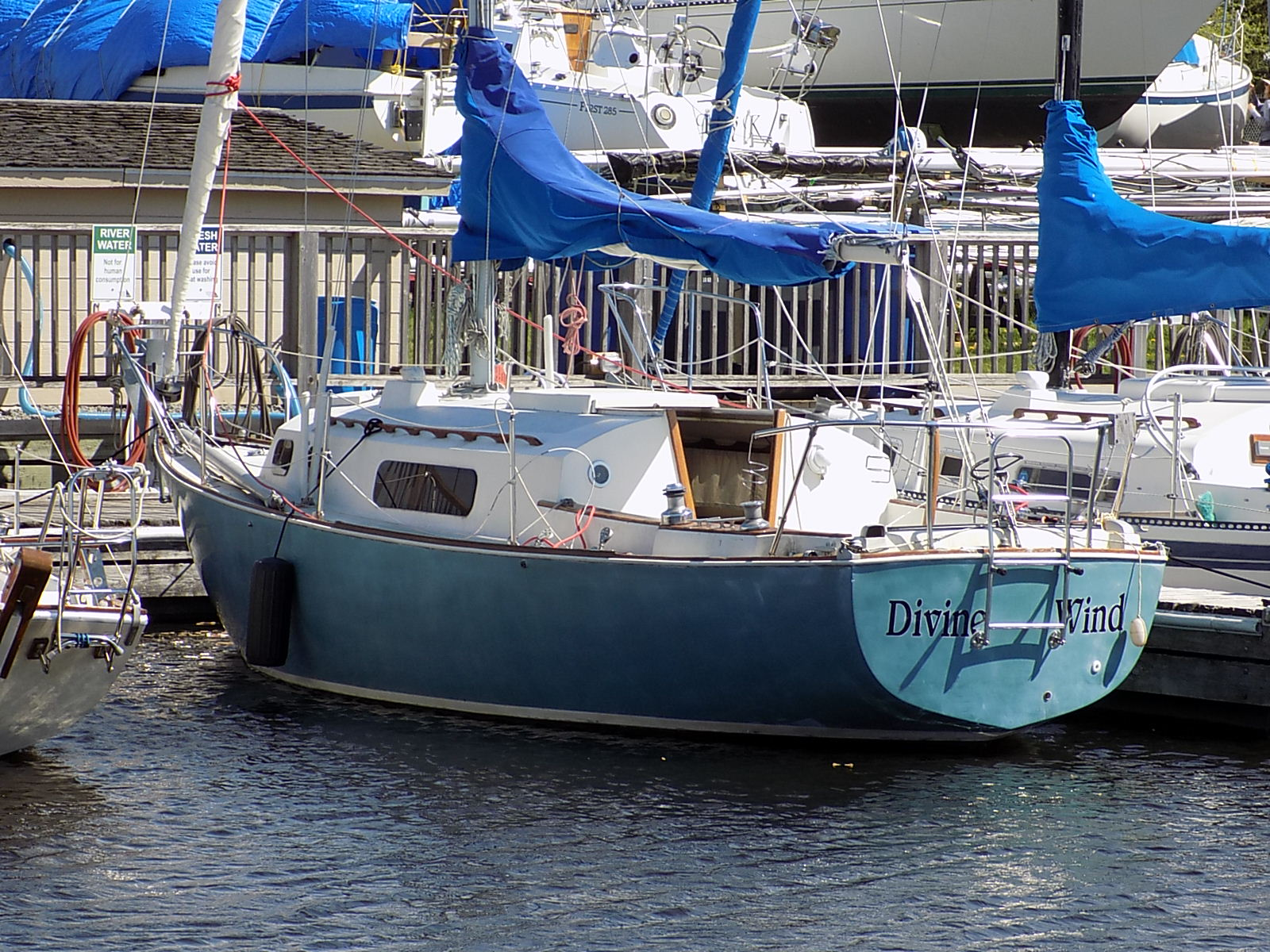 A Sabre 28 sailboat named Divine Wind.